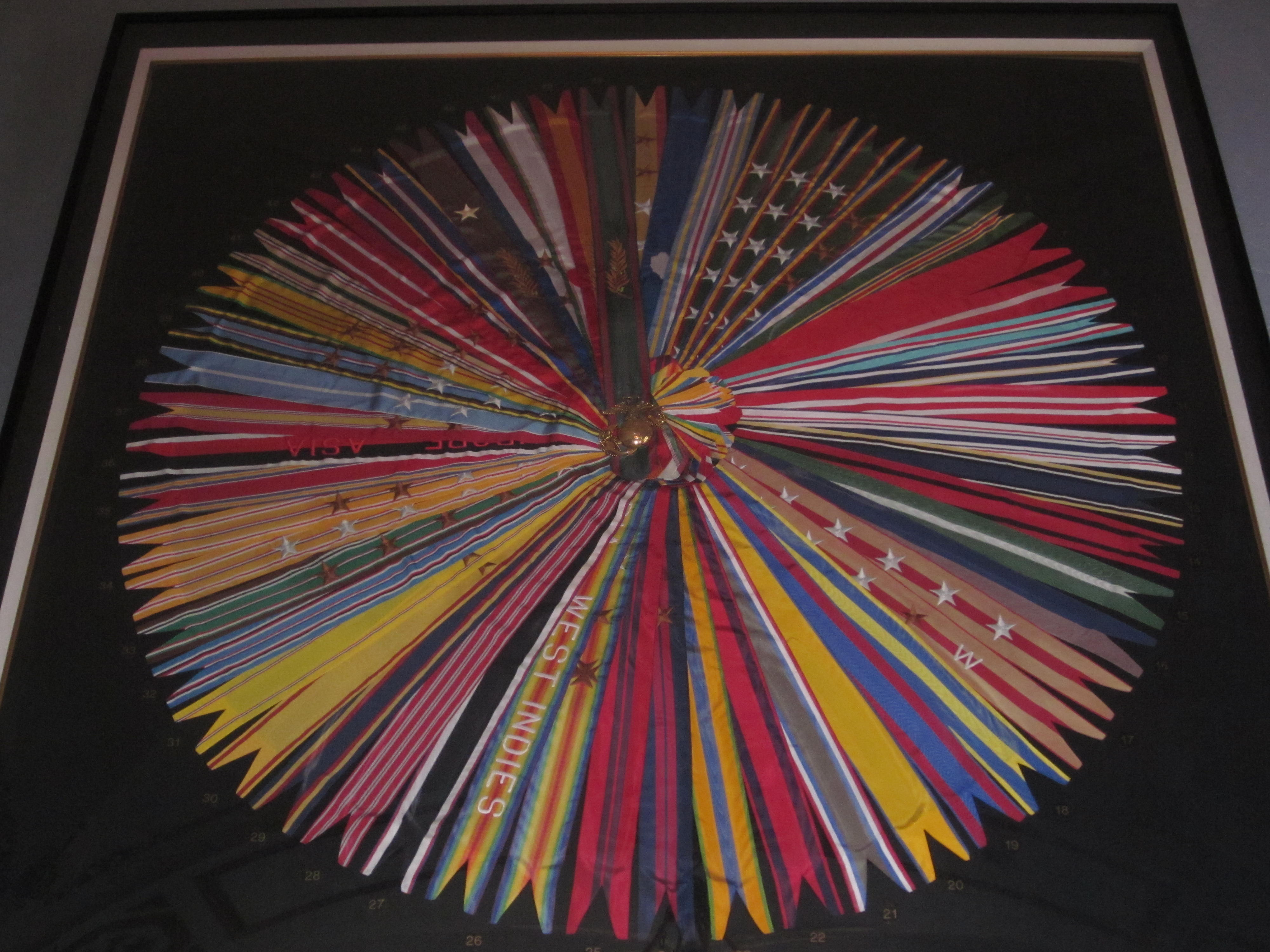 USMC battle streamers on display at the Marines' Memorial Hotel in San Francisco, California.